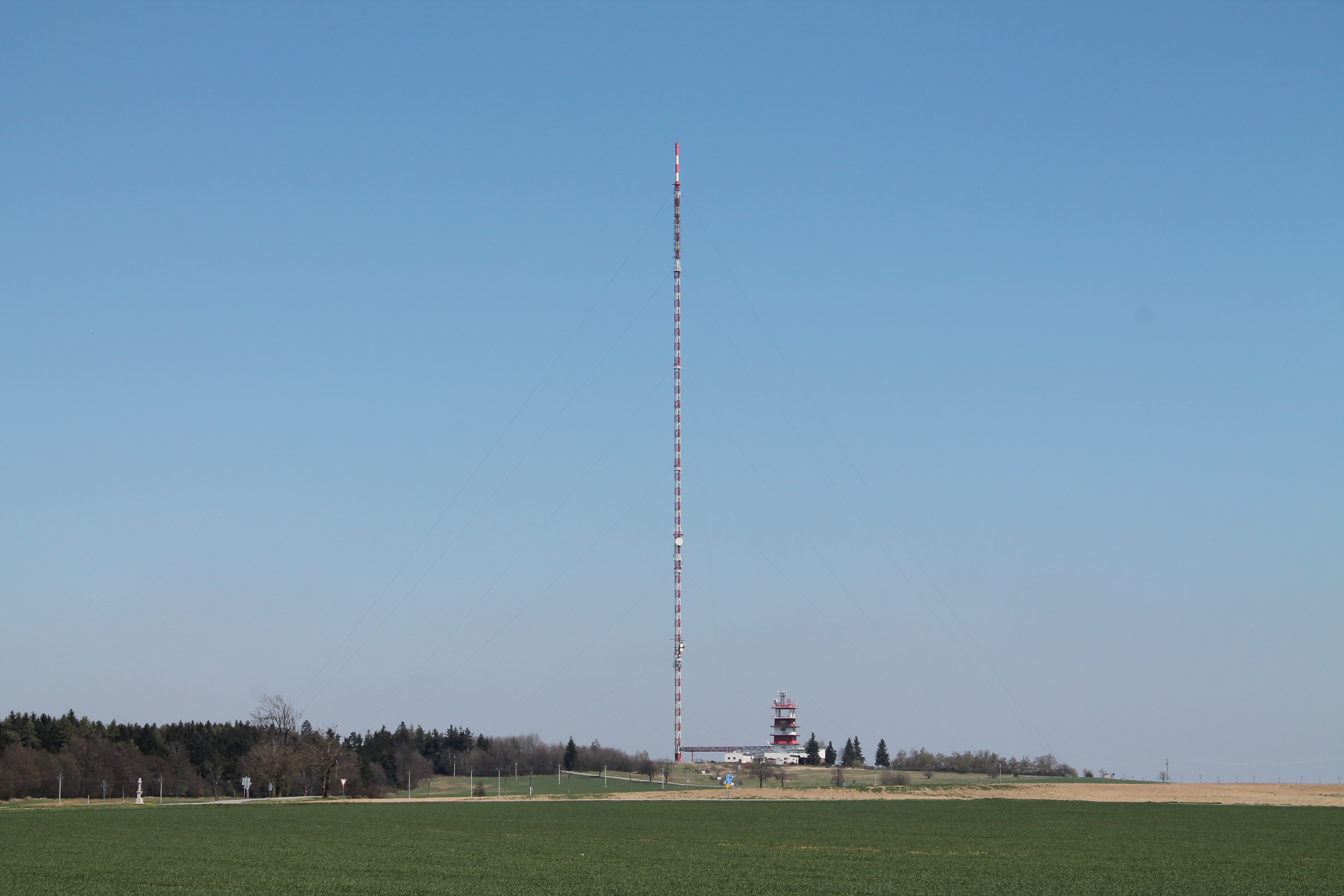 Kojál Transmitter, Krásensko, Vyškov District, Czech Republic